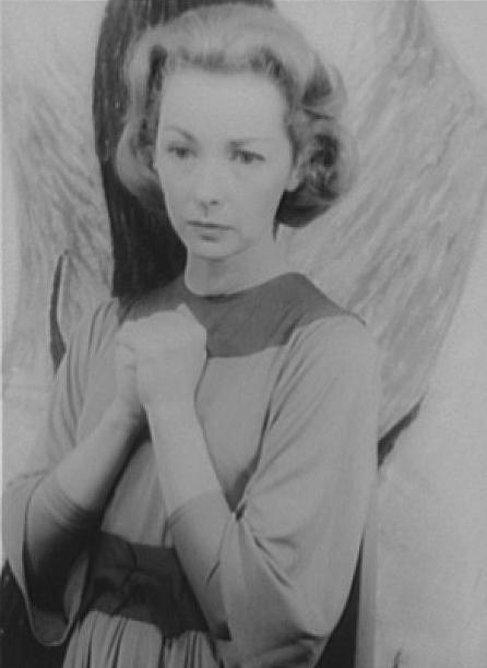 Portrait of Felicia Montealegre, as Joan in Joan at the Stake (Honegger-Claudel)